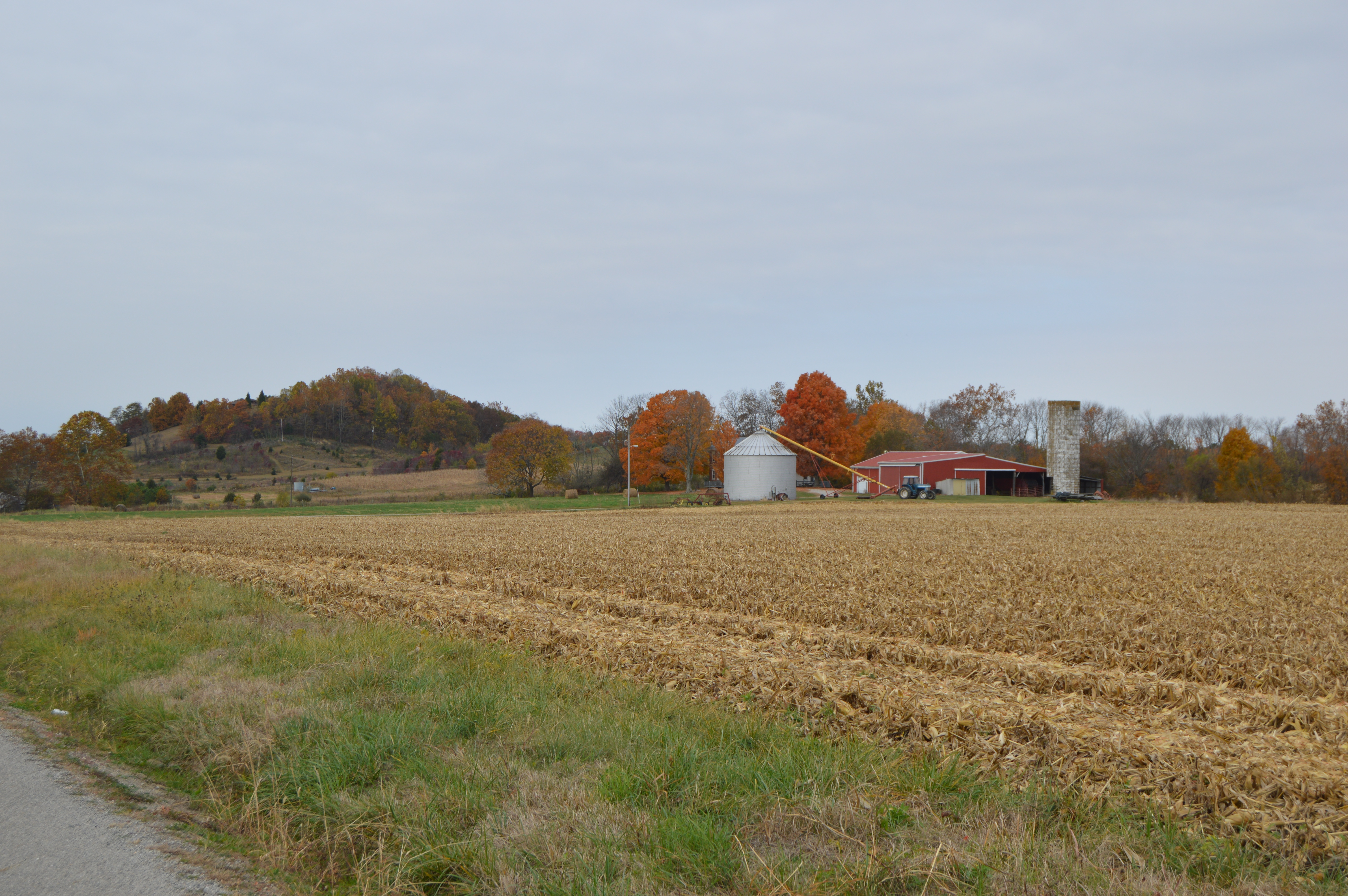 Farms on the northern side of Bailor Road west of the Union Road intersection, north of Laurelville, in Perry Township, Hocking County, Ohio, United States.